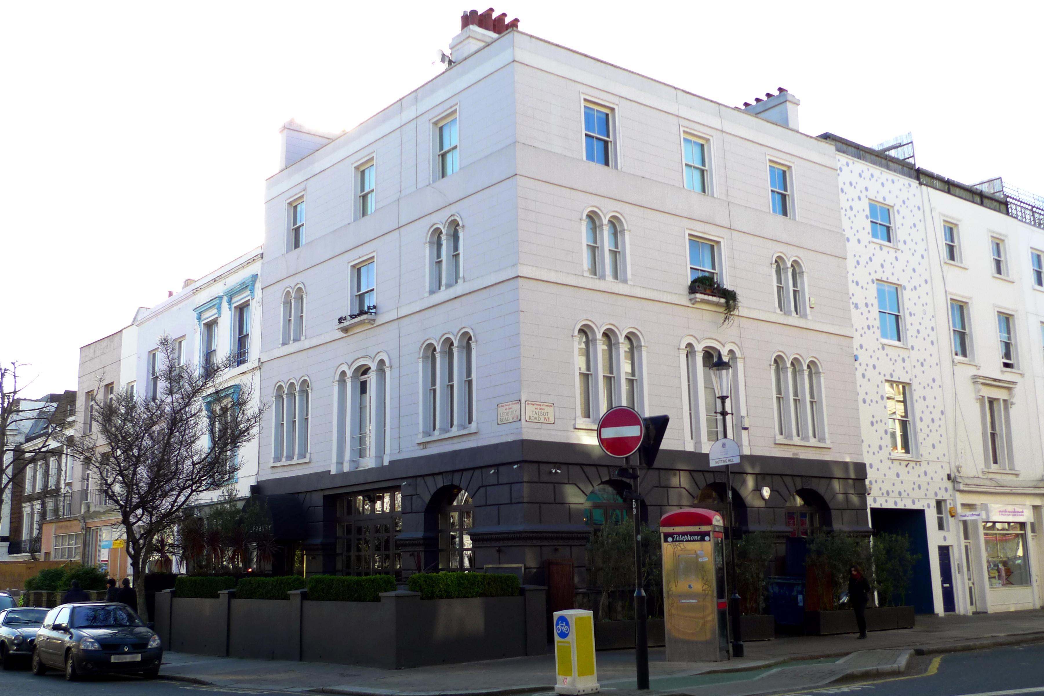 An excellent and well-regarded Michelin-starred restaurant in the residential backstreets of Notting Hill. Really very excellent food. (It's also in a former pub building.) Address: 127 Ledbury Road. Former Name(s): The Duke of Cornwall. Owner: (website); Courage (former). Links: London Eating Qype Dead Pubs (history) --- The Evening Standard [Andrew Neather] The Guardian [Jess Cartner-Morley] --- Cheese and Biscuits [Chris Pople] Dos Hermanos [Robin Majumdar] Food Stories [Helen Graves] Tamarind and Thyme [Su-Lin]